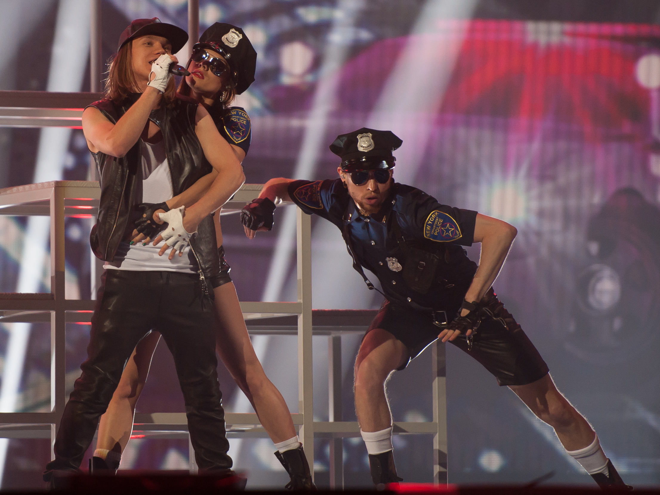 Eurovision Song Contest Vienna 2015: Eduard Romanyuta, Moldova